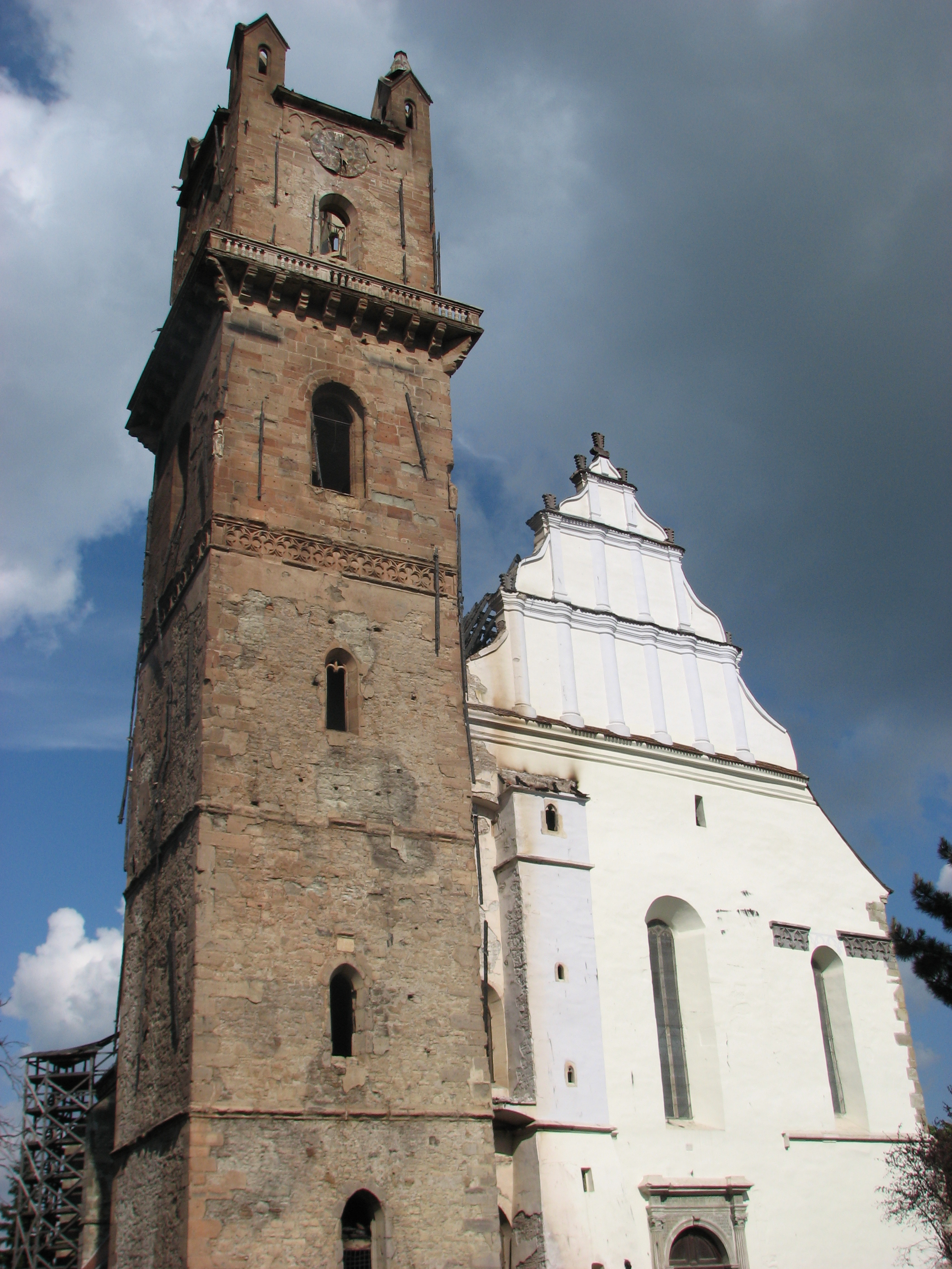 Evangelic Church - Bistrita